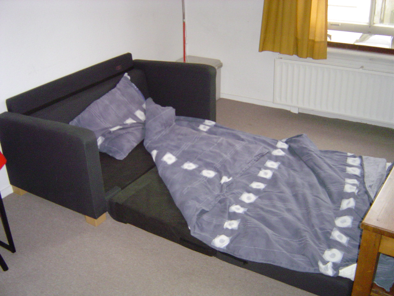 Solsta sofa bed from IKEA, Sweden